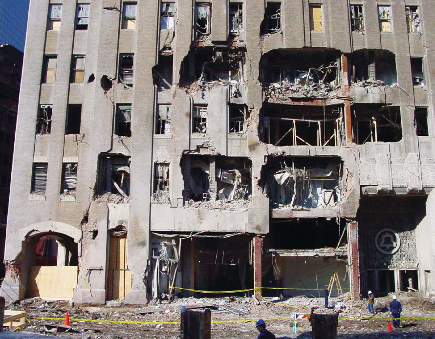 Damage to the Verizon Building and debris from the collapse of en:7 World Trade Center on 9/11